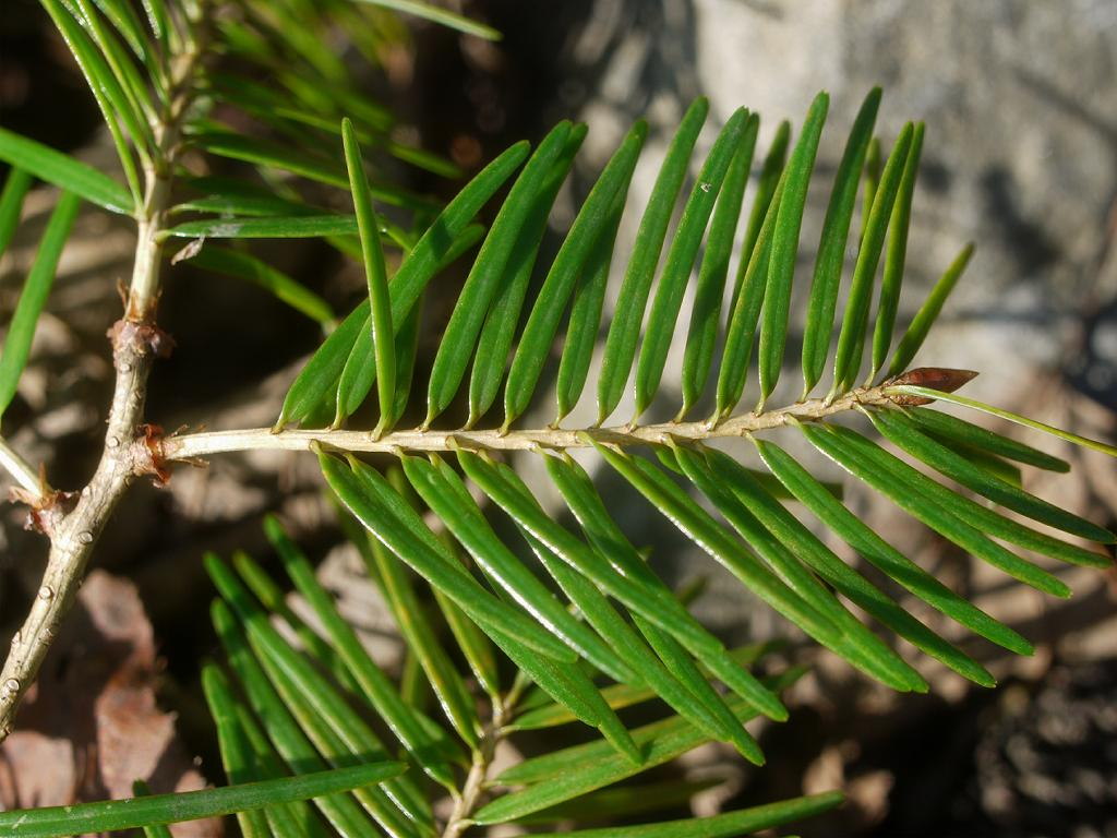 Pseudotsuga japonica (Pinaceae) Japanese name: togasawara：トガサワラ Date; 2009-11-15; Tanabe City, Wakayama prefecture, Japan Author; Keisotyo